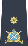 Air Cdre PAF